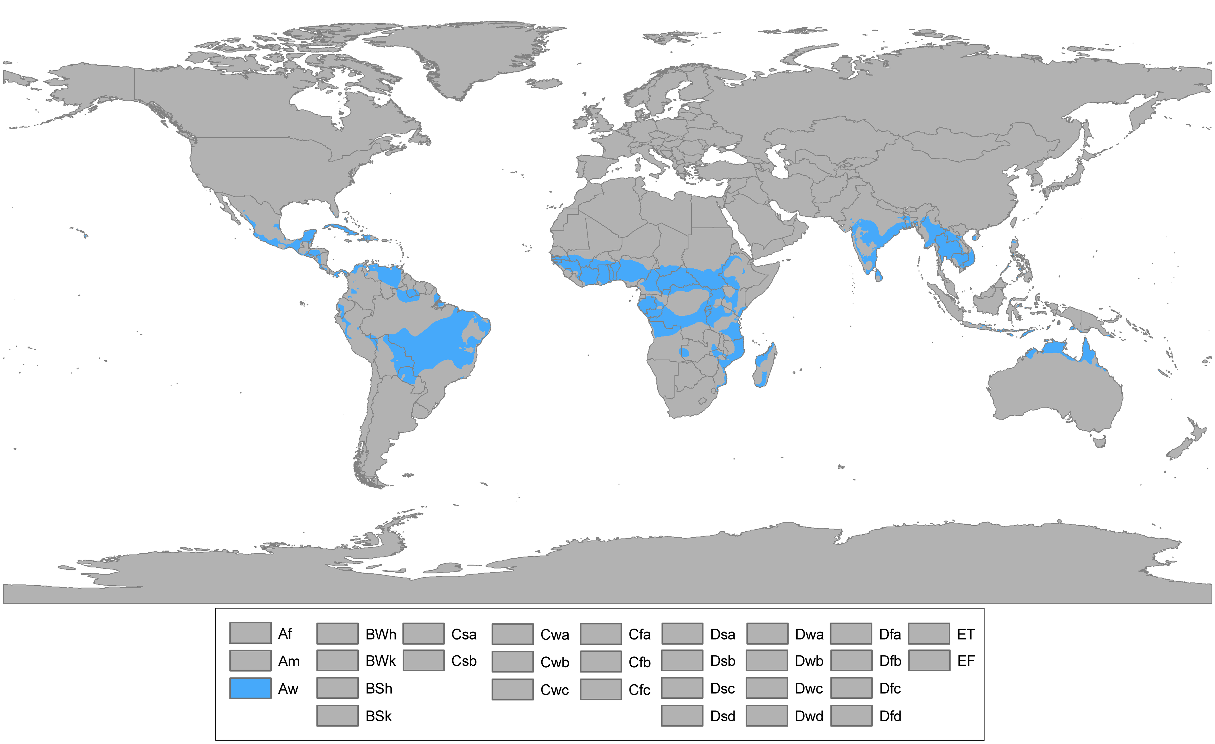 Updated world map of the Köppen-Geiger climate classification. Tropical wet and dry or savanna climate (Aw)